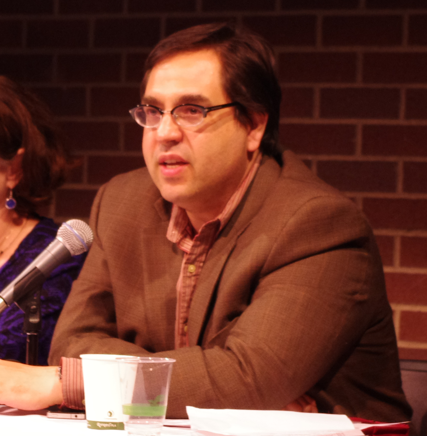 Peter W. Klein at Simon Fraser University in downtown Vancouver, serving as the moderator for the event "The Right to Seek Refuge: Implications of Bill C-31"